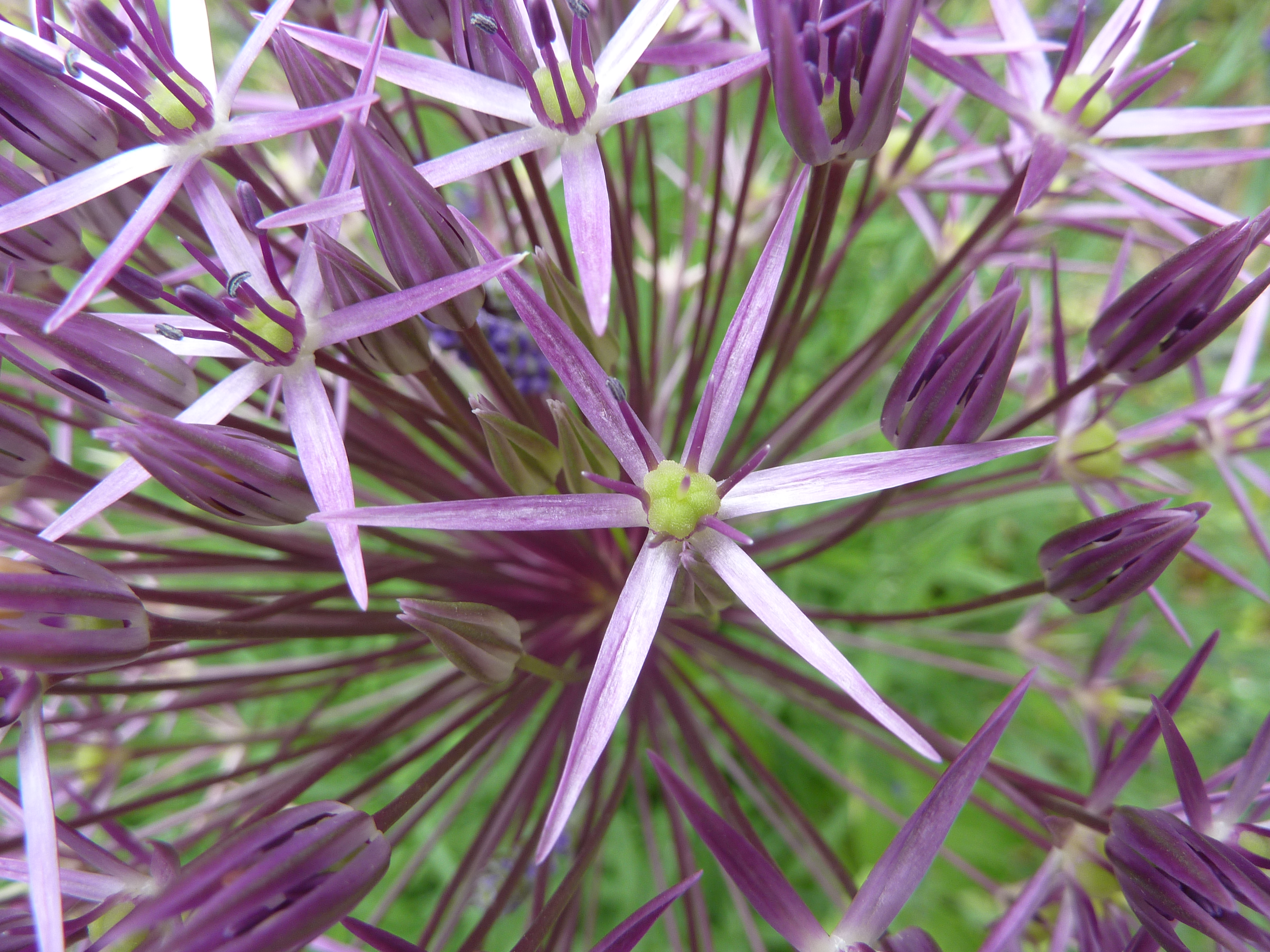 Taken in the Cambridge University Botanic Garden